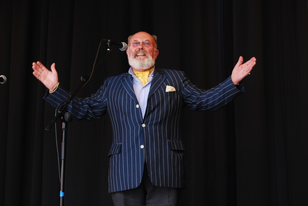 David Norris, Bloomsday, Dublin, 16/06/2010